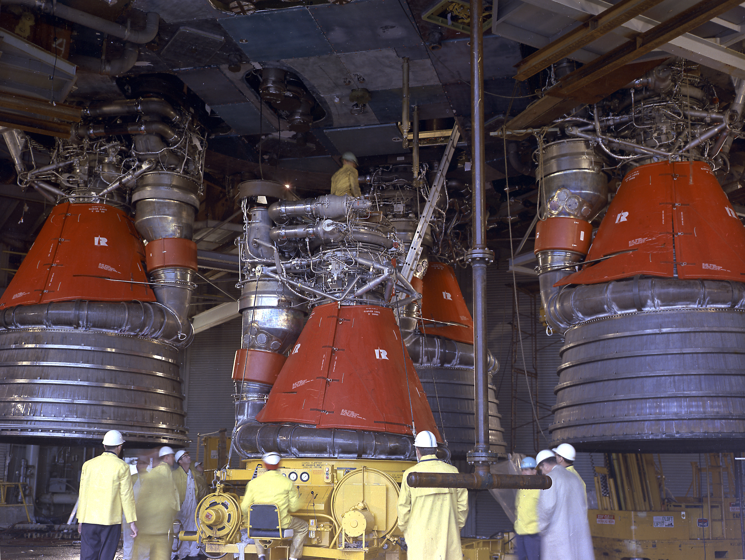 Installation of the F-1 Engine to the Saturn V S-IC Stage for Testing. Engineers at the Marshall Space Flight Center install the F-1 engines on the S-IC stage thrust structure at the S-IC static test stand. Engines are installed on the stage after it has been placed in the test stand. Five F-1 engines, each weighing 10 tons, gave the booster a total thrust of 7,500,000 pounds, roughly equivalent to 160 million horsepower.